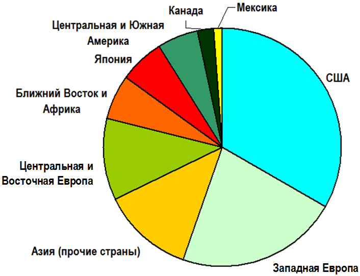 The pie chart shows world consumption of sodium hypochlorite (2008)